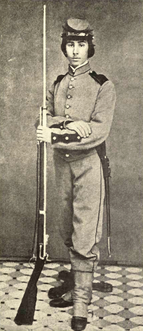 American poet and newspaperman Richard Watson Gilder (1844-1909) as a soldier in the American Civil War